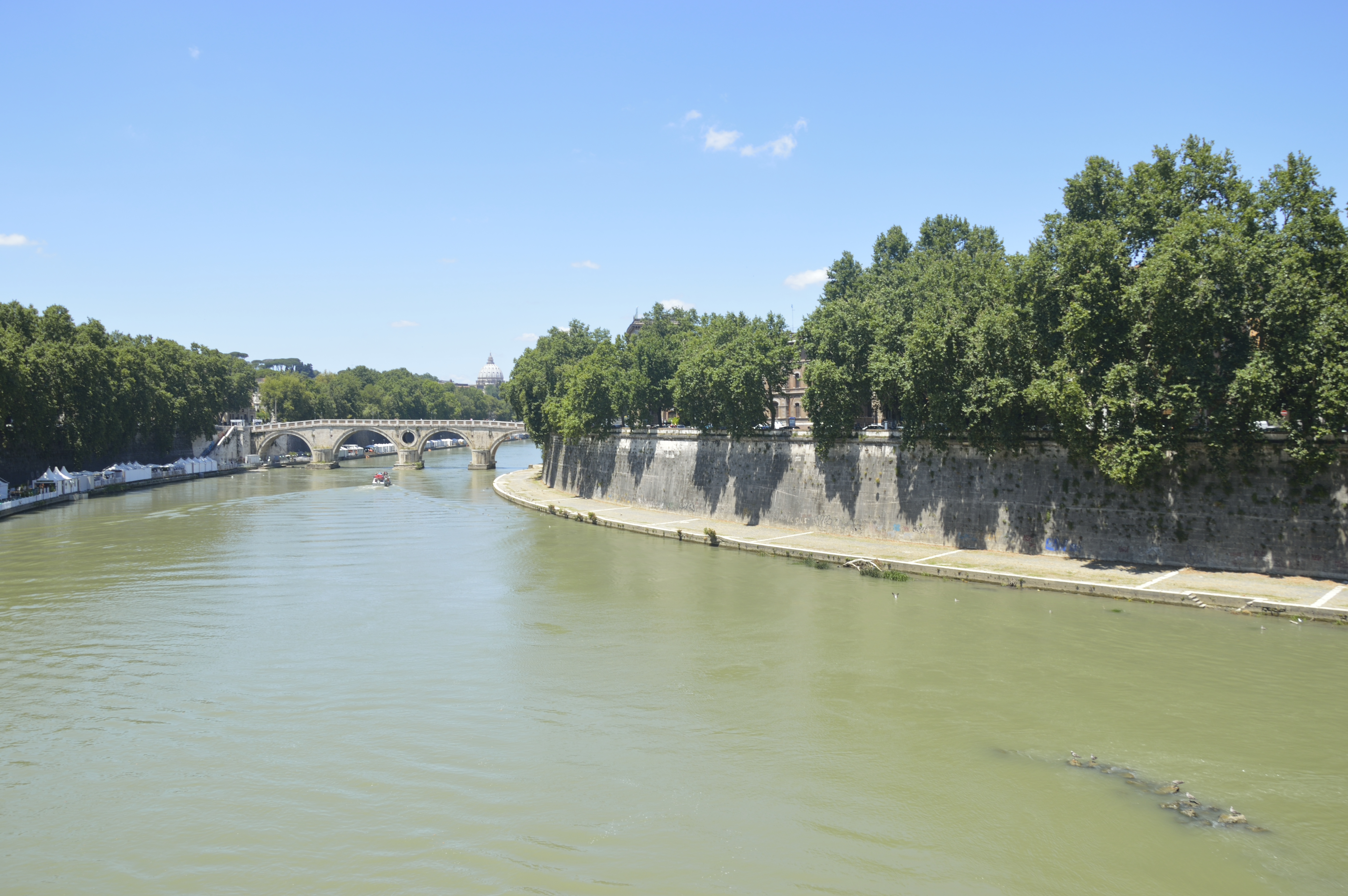 Fiume tevere